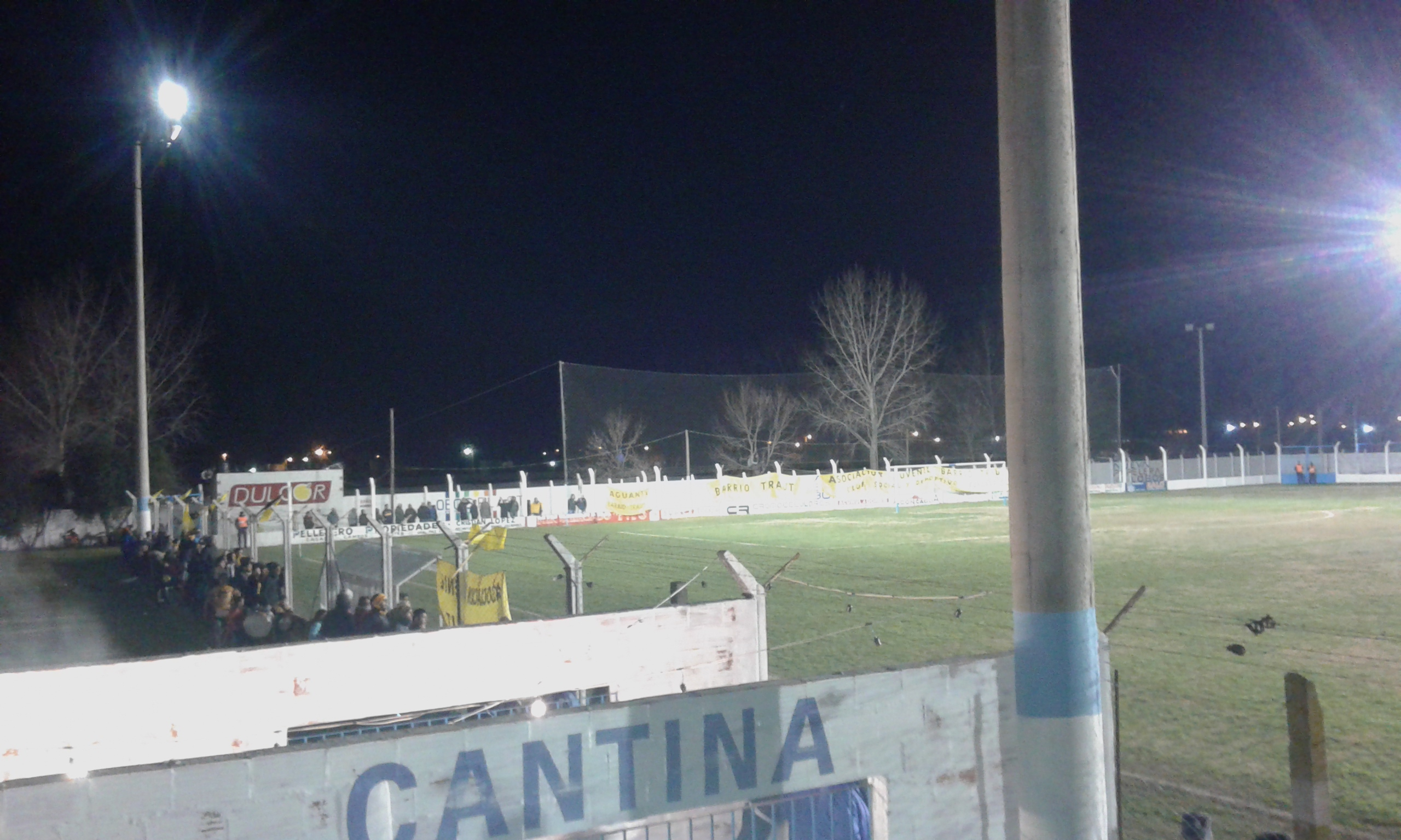 Club Ferrocarril Roca Las Flores Stadium